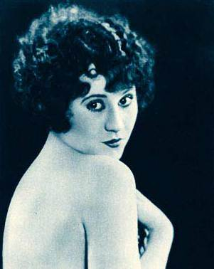 Publicity photo of Alberta Vaughn from Stars of the Photoplay. Alberta Vaughn about four years ago was living very contentedly in her home in Kentucky. One day a promoter came to town and announced he was going to make a motion picture there and choose his entire cast from among the natives. Alberta was selected to play the leading role. The entire production was an amateurish effort, but her work was so impressive that the promoter advised her to go to California. Alberta heeded his advice. It was not all sunshine at first. It was after her appearance in "The Son of Wallingford" that she started her ascent on the ladder of fame.